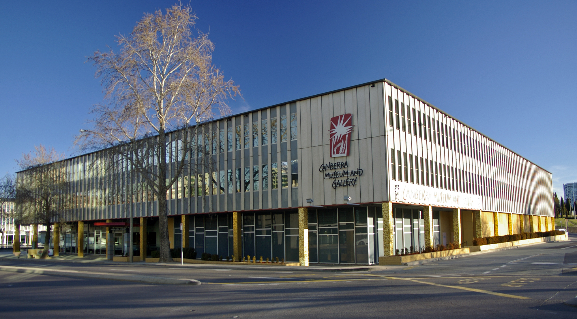 Canberra Museum and Gallery viewed from London Circuit in Canberra City, Australian Capital Territory